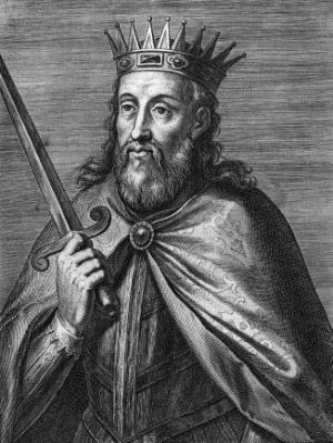 Dinis I of Portugal. Engraving from the book Philippus prudens Caroli V. Imp. Filius Lusitanae Algarbiae, Indiae, Brasiliae legitimus rex demonstratus by Juan Caramuel Lobkowitz.